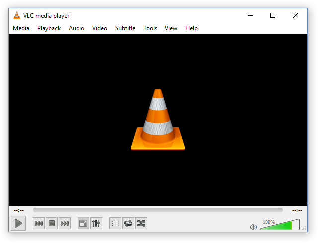 A screenshot of VLC v2.2.4 running on Windows 10.